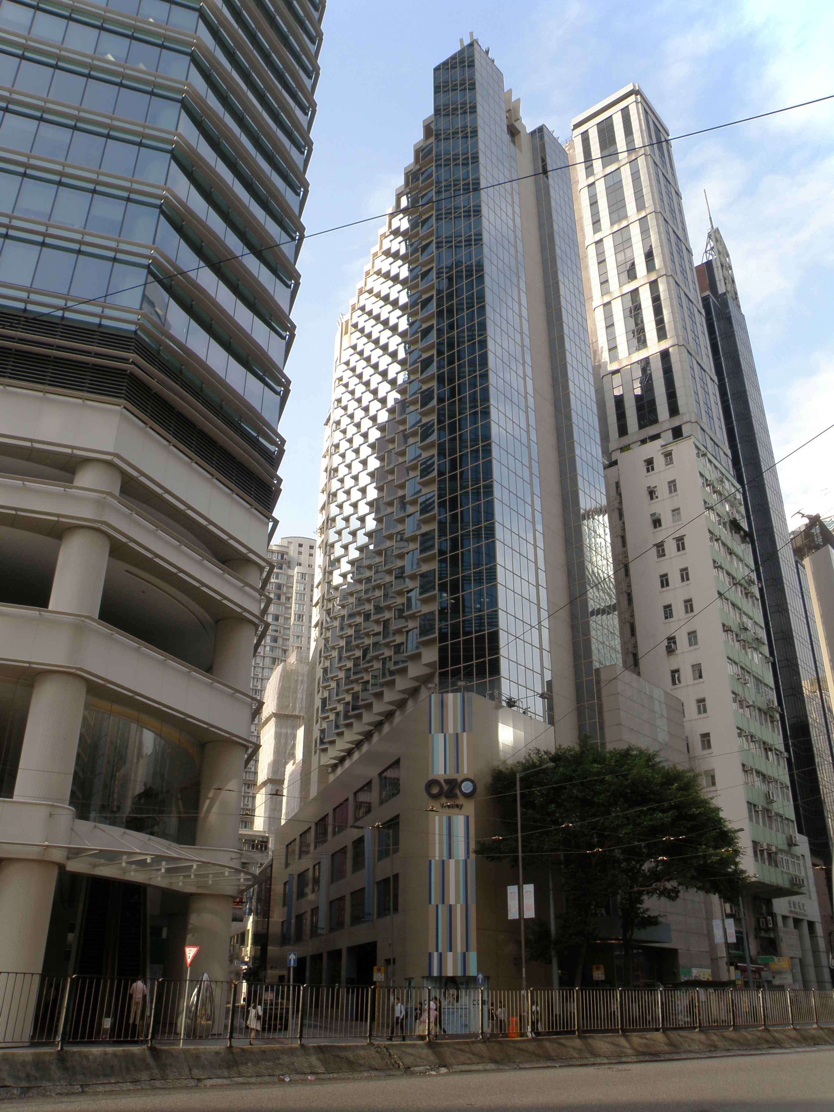 OZO Wesley Hotel Hong Kong in Wan Chai, Hong Kong.